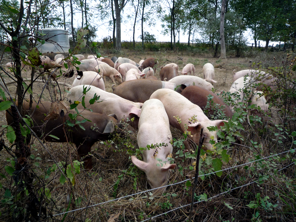 Hungry pigs at Polyface Farms in Virginia.